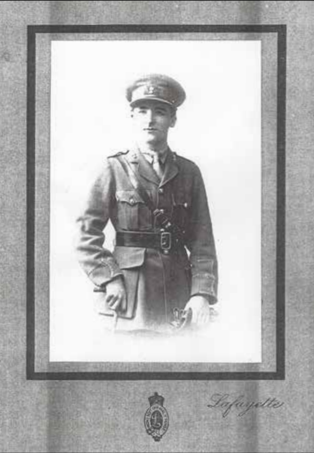 Lieutenant Hugo Bell Fisher, Elizabeth Gould Bell's son and war hero.